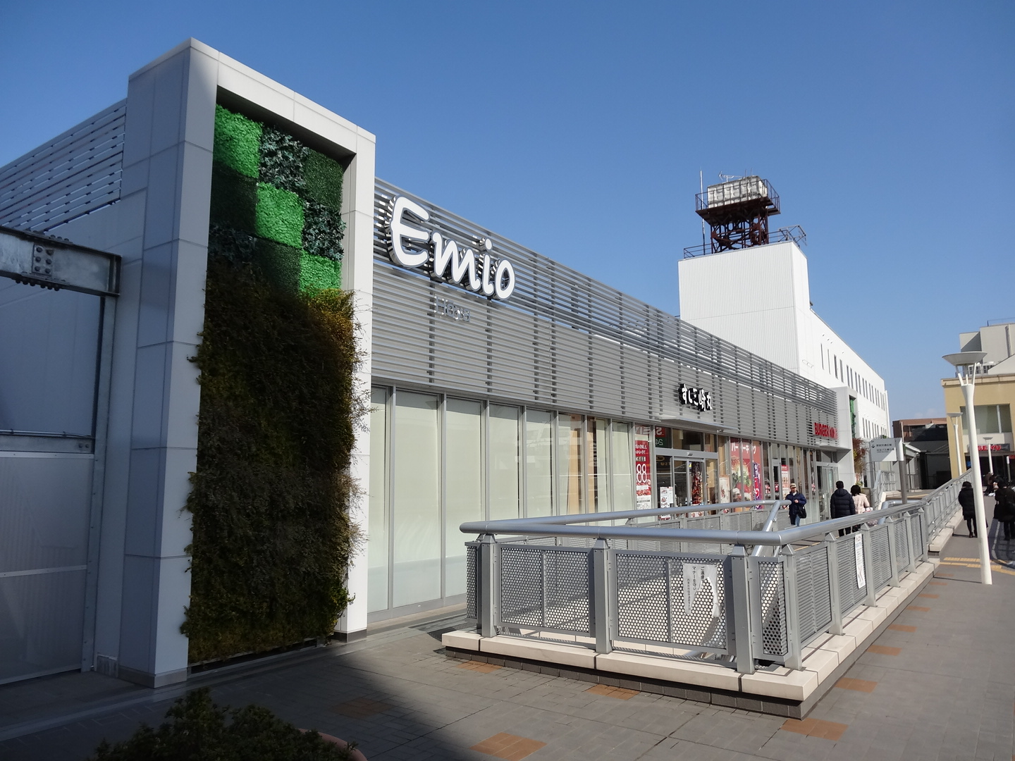 Emio-Hoya-expansion-area 2014/02/17